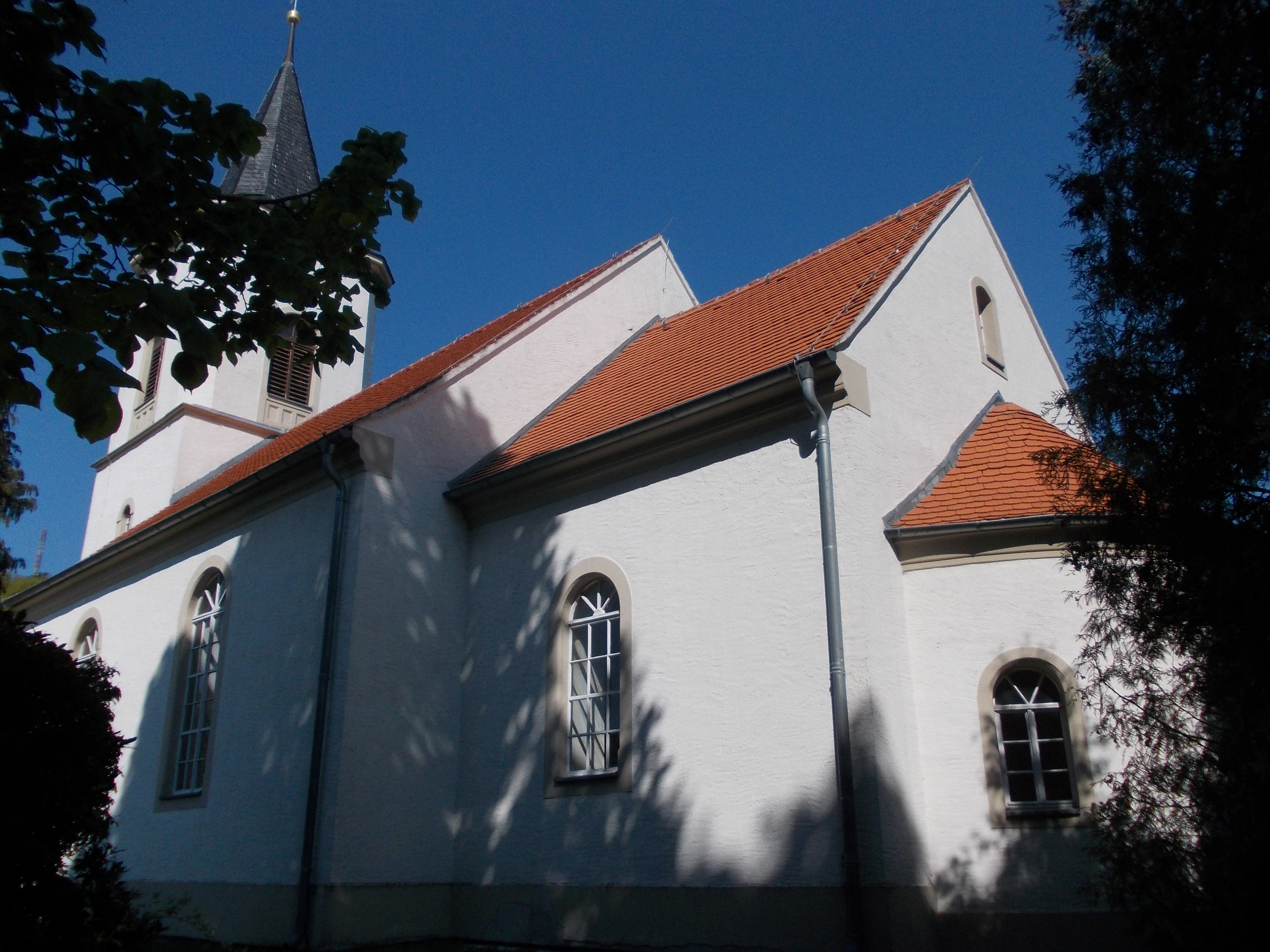 Collm church (Wermsdorf, Nordsachsen district, Saxony)